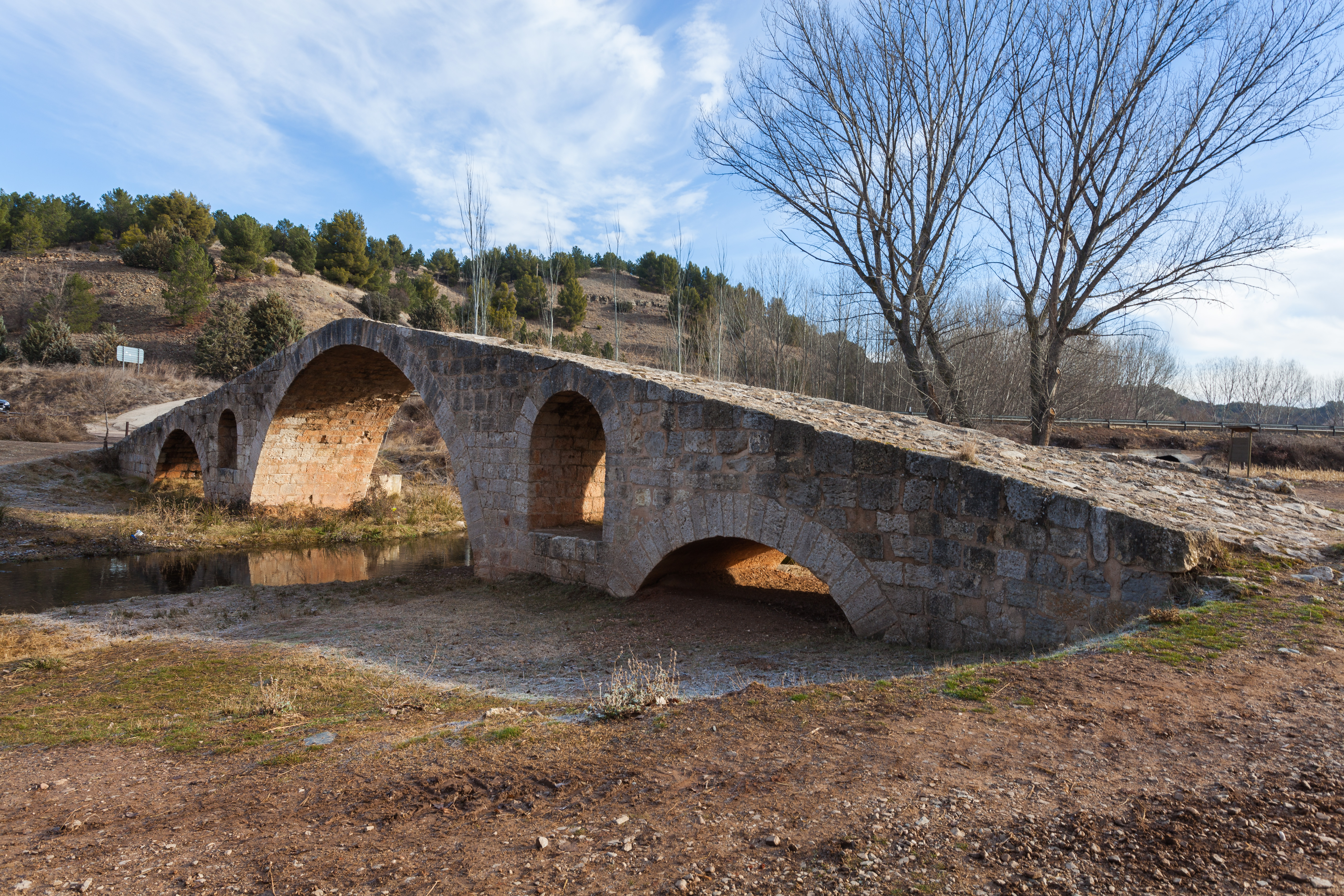 Roman bridge over the Pancrudo river, Luco de Jiloca, Teruel, Spain